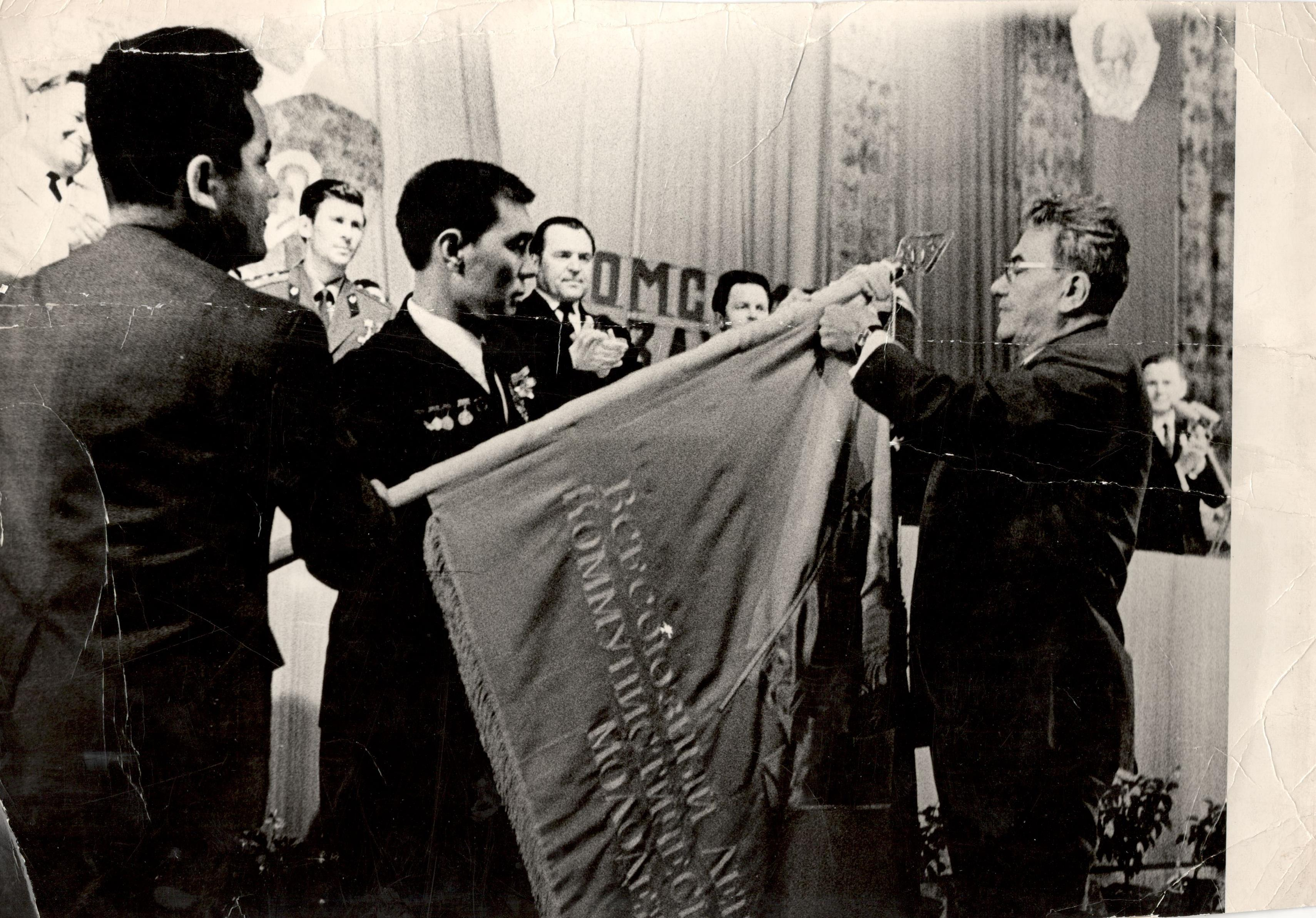 Dinmukhammed Kunayev was a Kazakh Soviet communist politician.